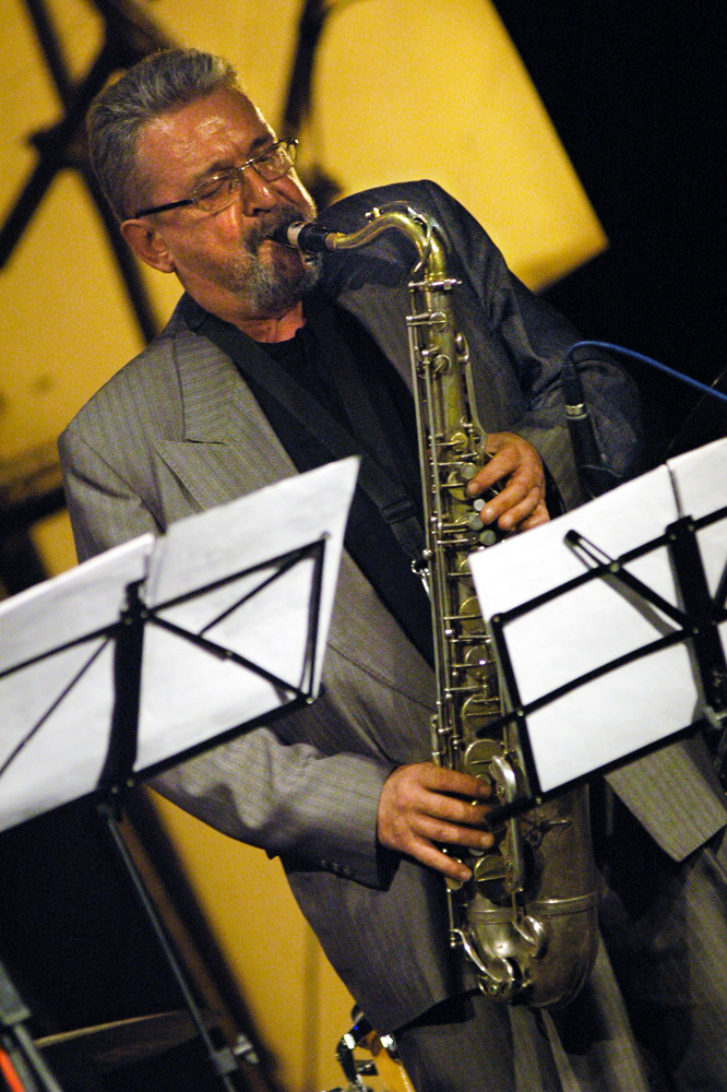 Tomasz Szukalski - jazz saxophone player in concert